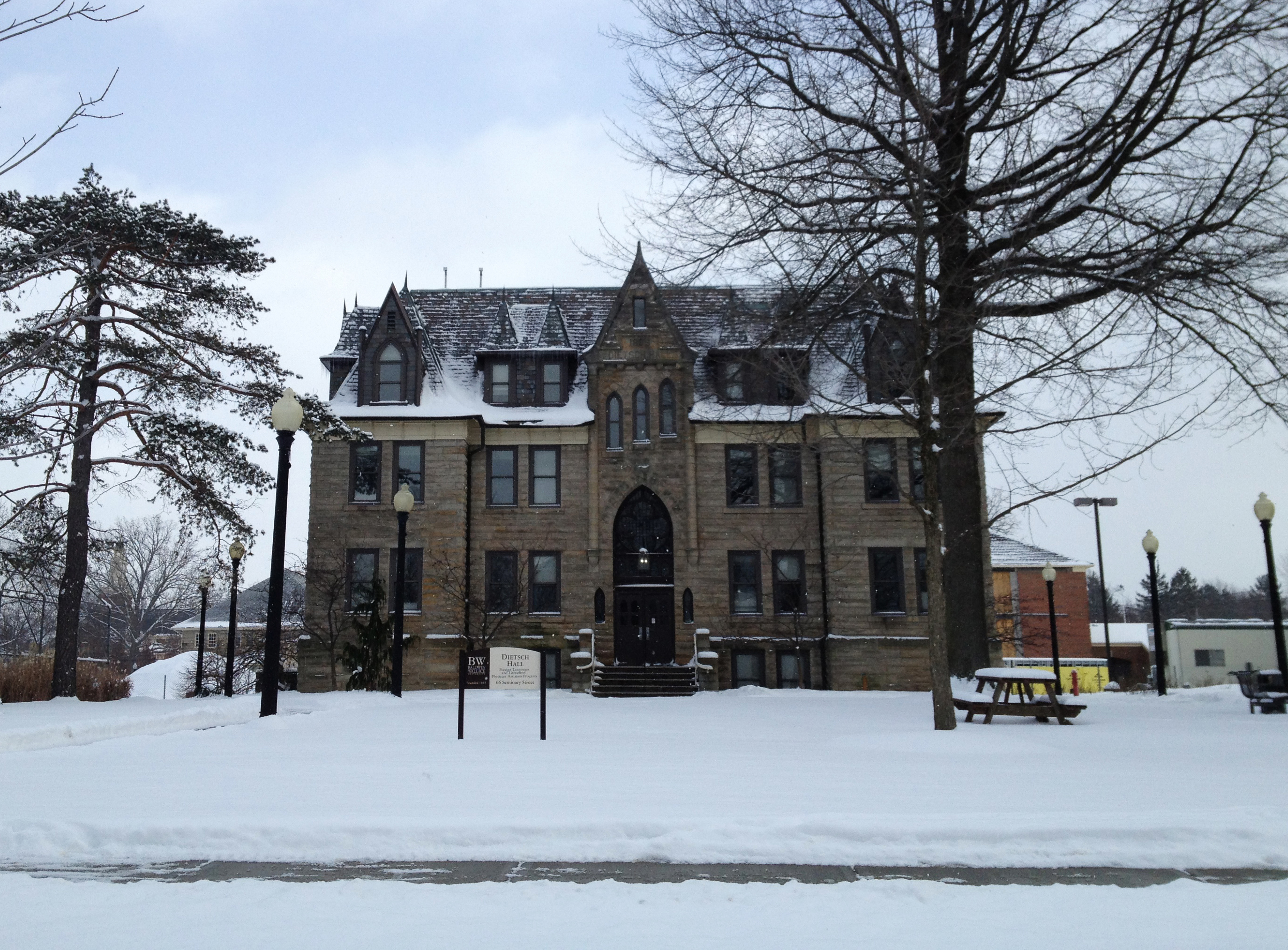 Dietsch Hall on Baldwin Wallace University South Campus